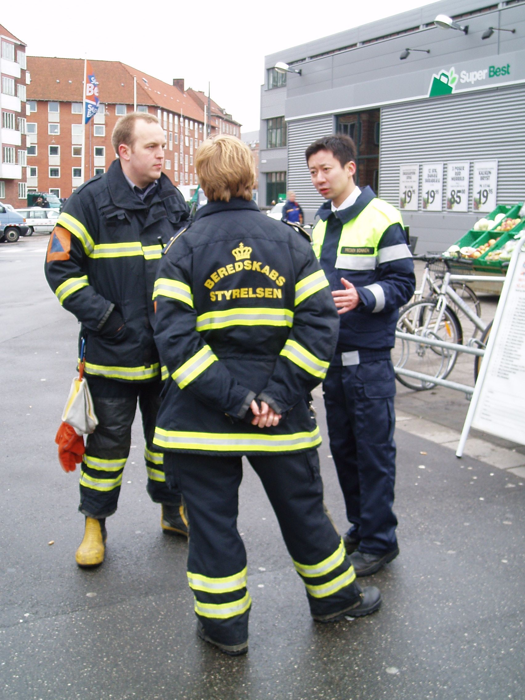 Two officers of the Danish Emergency Management Agency talking with senior lecturer Preben Bonnén during an full-scale terror exercise in Copenhagen.